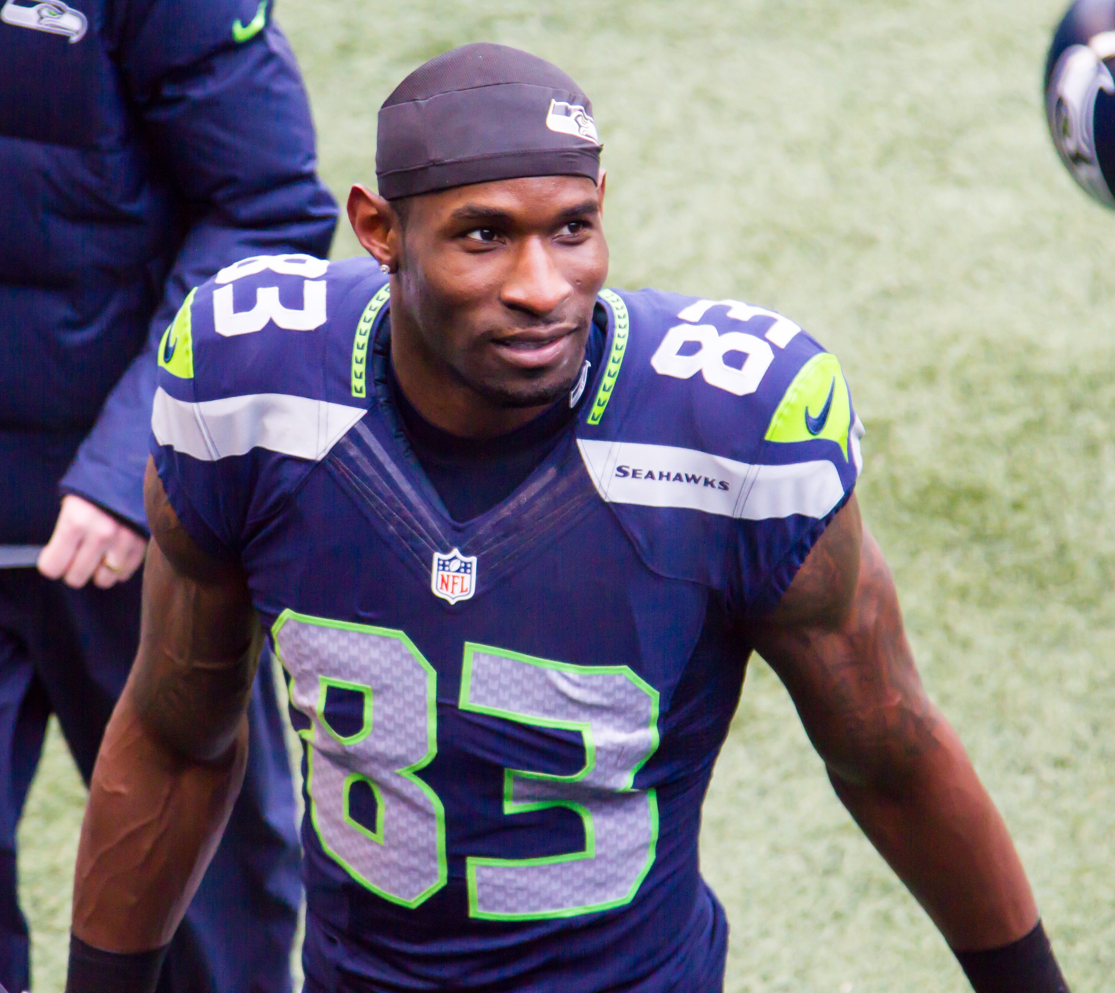 Ricardo Lockette, Seahawks vs Rams 12.29.13